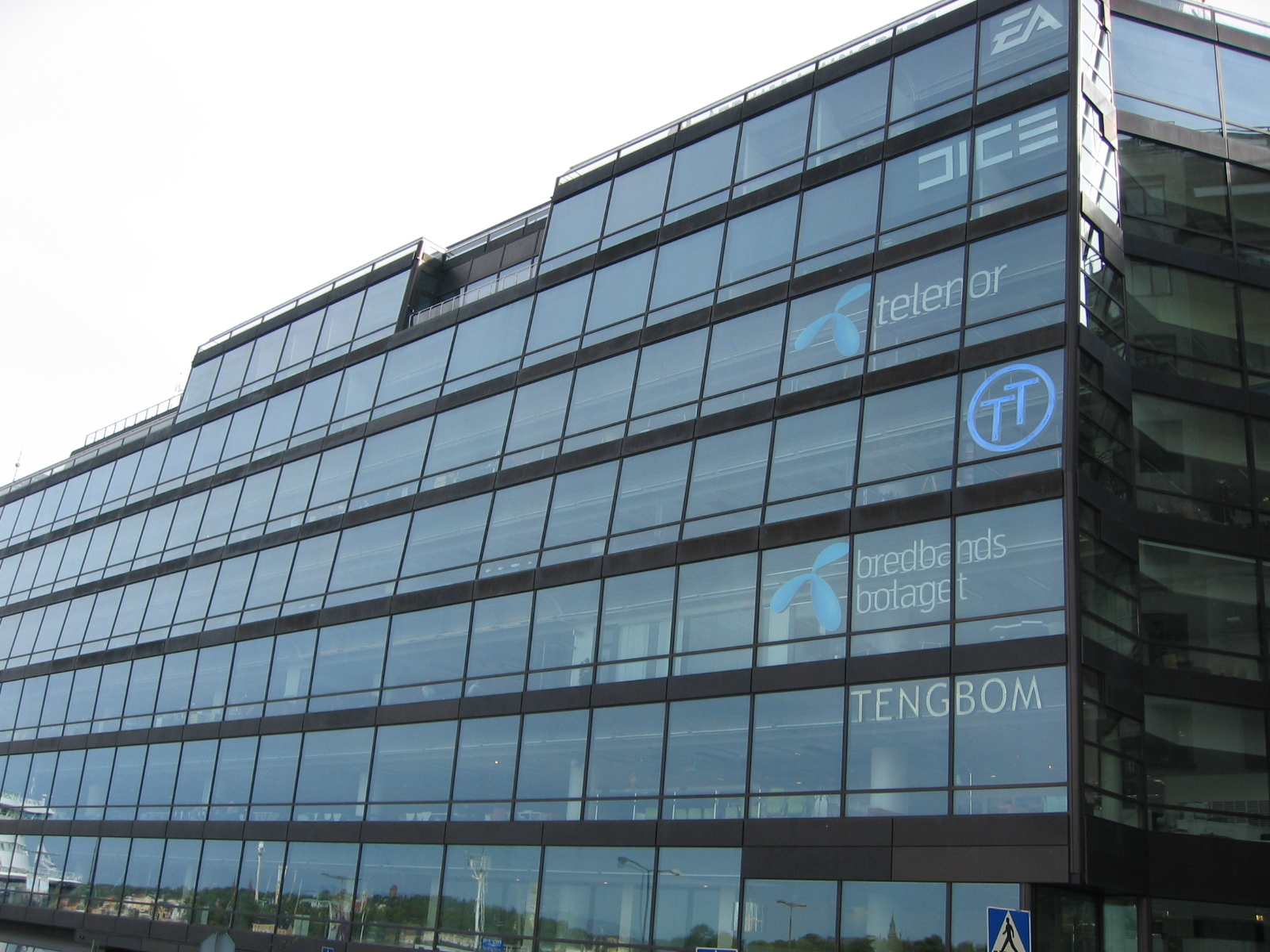 Bredbandsbolaget’s and Telenor Sweden’s headquarters. The Glasshouse at Katarinavägen 15 in Stockholm, Sweden.